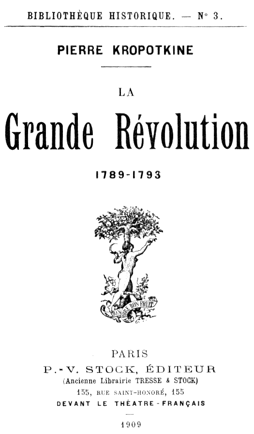 Peter Kropotkin, "The Great Revolution", Cover